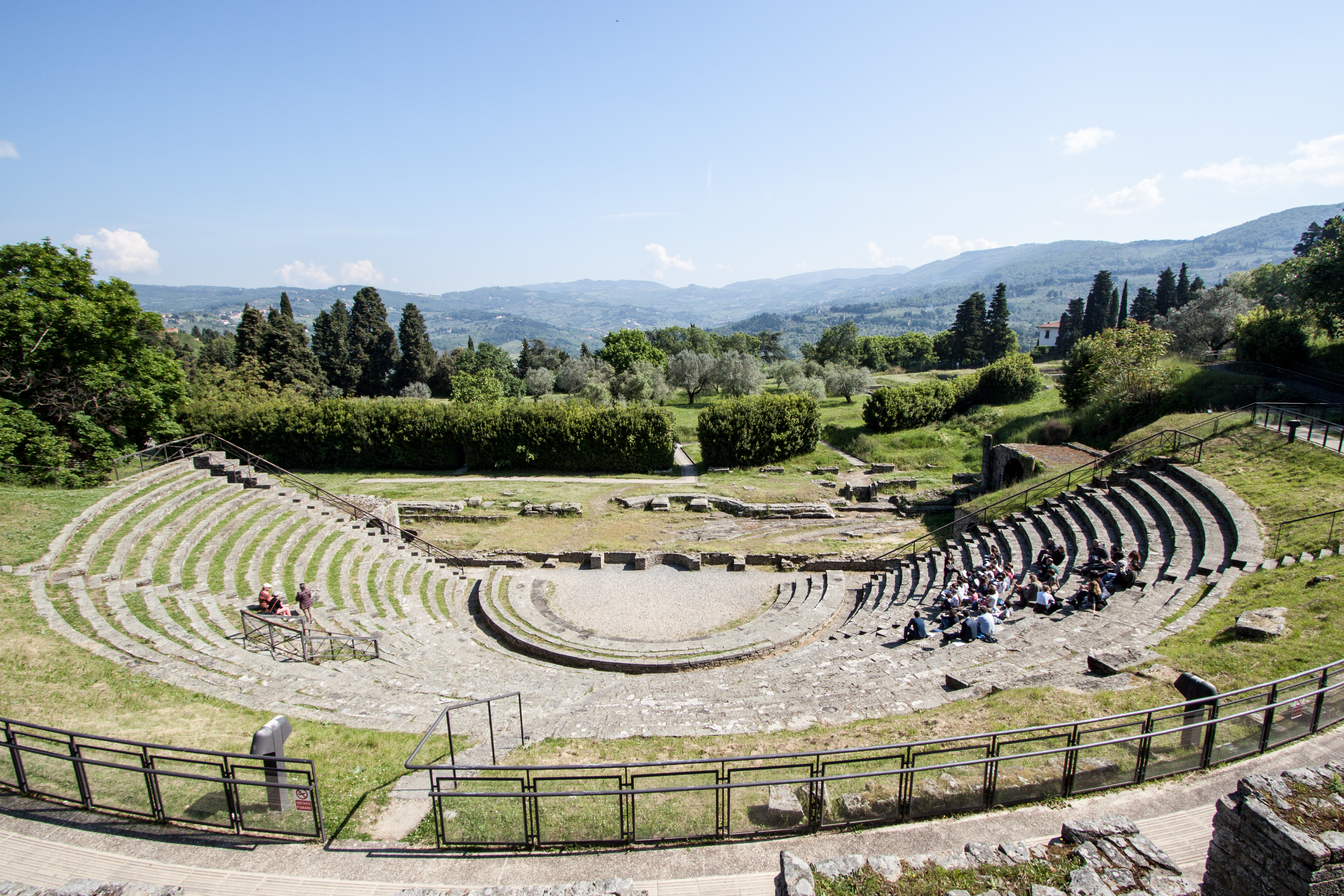 Fiesole, Roman theatrelabel QS:Len,"Fiesole, Roman theatre"label QS:Lhu,"Fiesole, római színház"